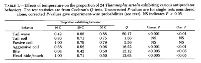 Temperature in Garter Snakes